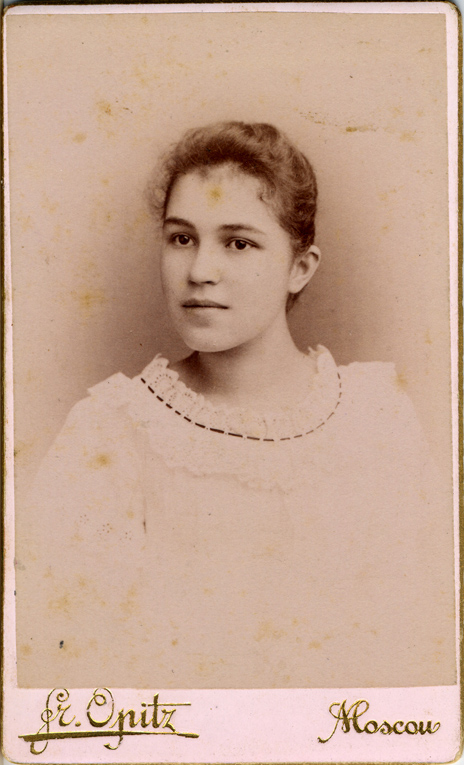 Ekaterina Vladimirovna Vystavkina (nee Brovtsyna) (1877—1957), Russian writer